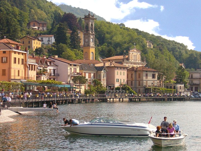 Porto Ceresio Picture taken by user:Idéfix, may 2004